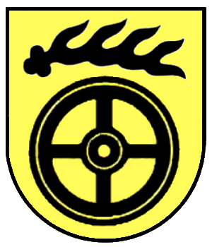 Coat of arms of Ölbronn-Dürrn